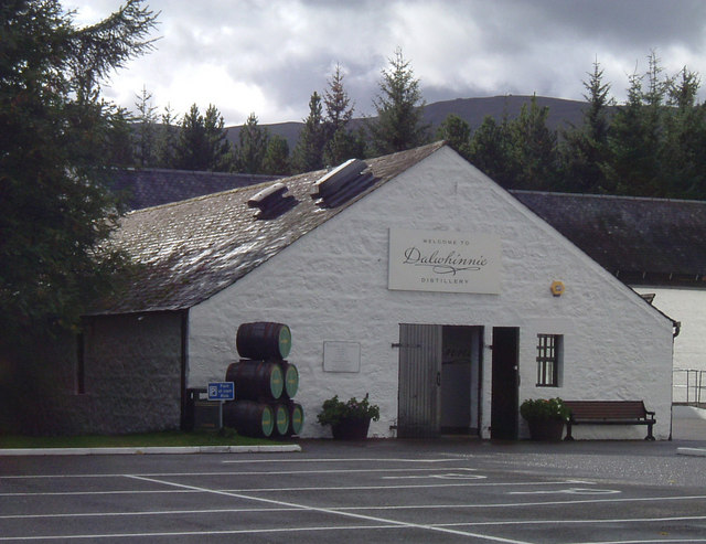 Dalwhinnie Distillery Scotland's highest distillery at 1,073 feet above sea level